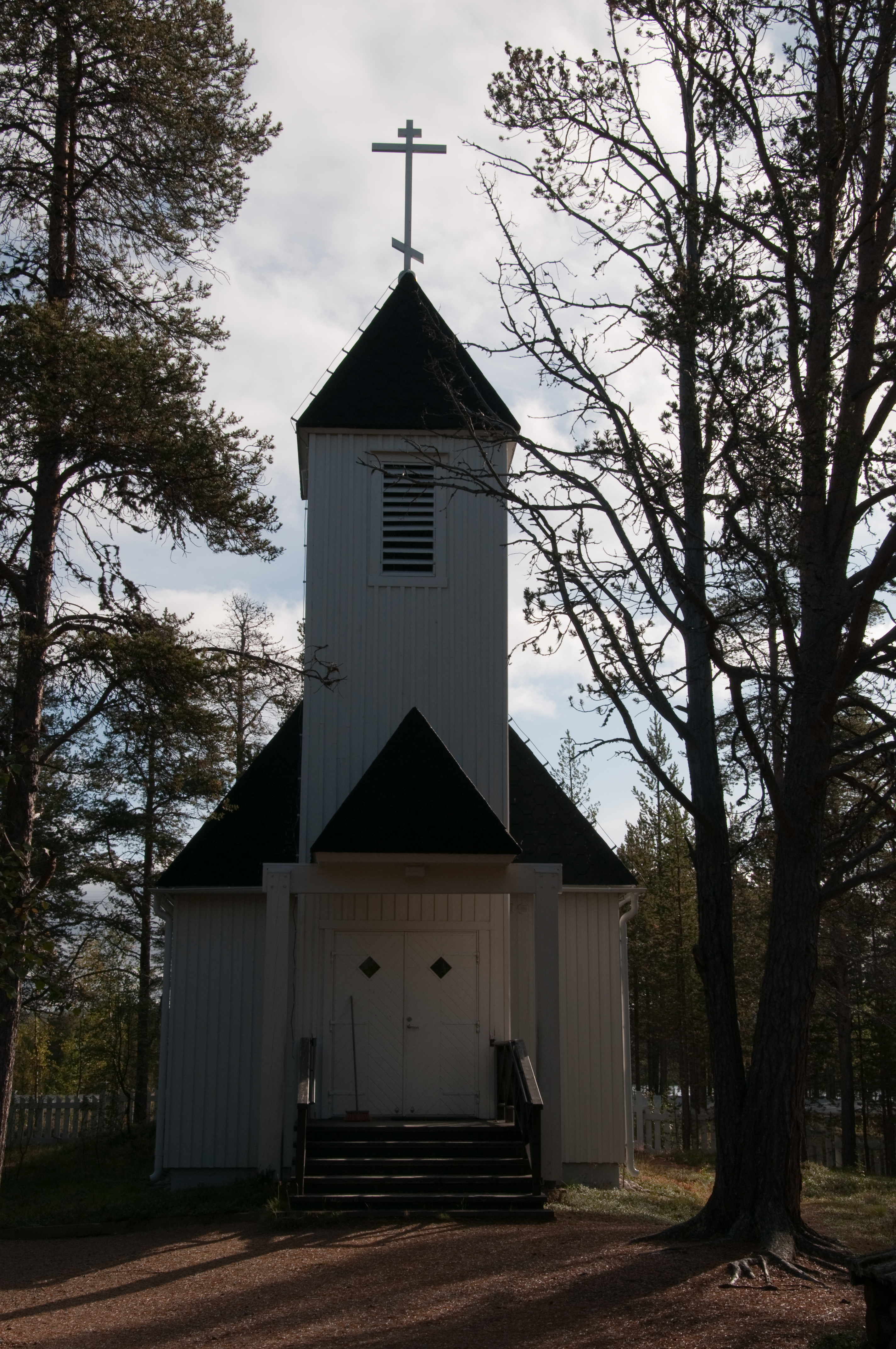 Church of Sevettijärvi